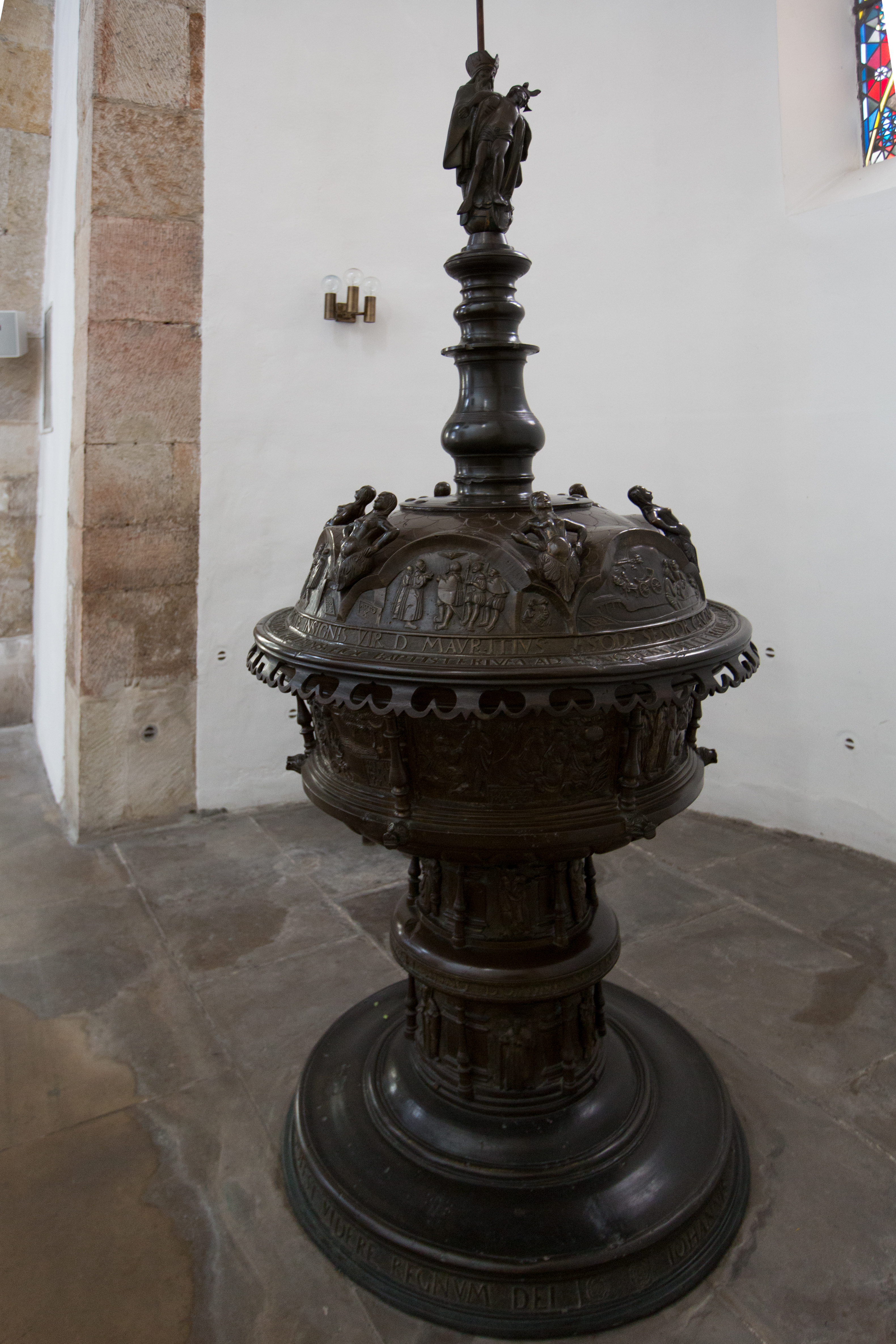 Baptismal font from 1592 by Mante Pelkinck in Holy Cross Church Hildesheim (Germany)